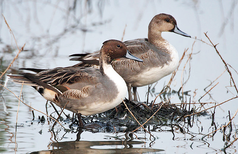 Northern Pintail (Anas acuta) near Hodal in Faridabad District of Haryana, India.